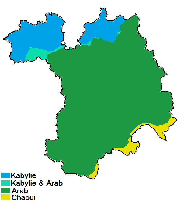 Setif Languages